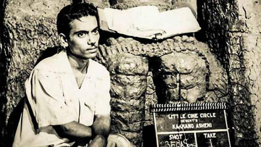 Zahir Raihan at the set of the film Kokhono Asheni in his directorial debut.